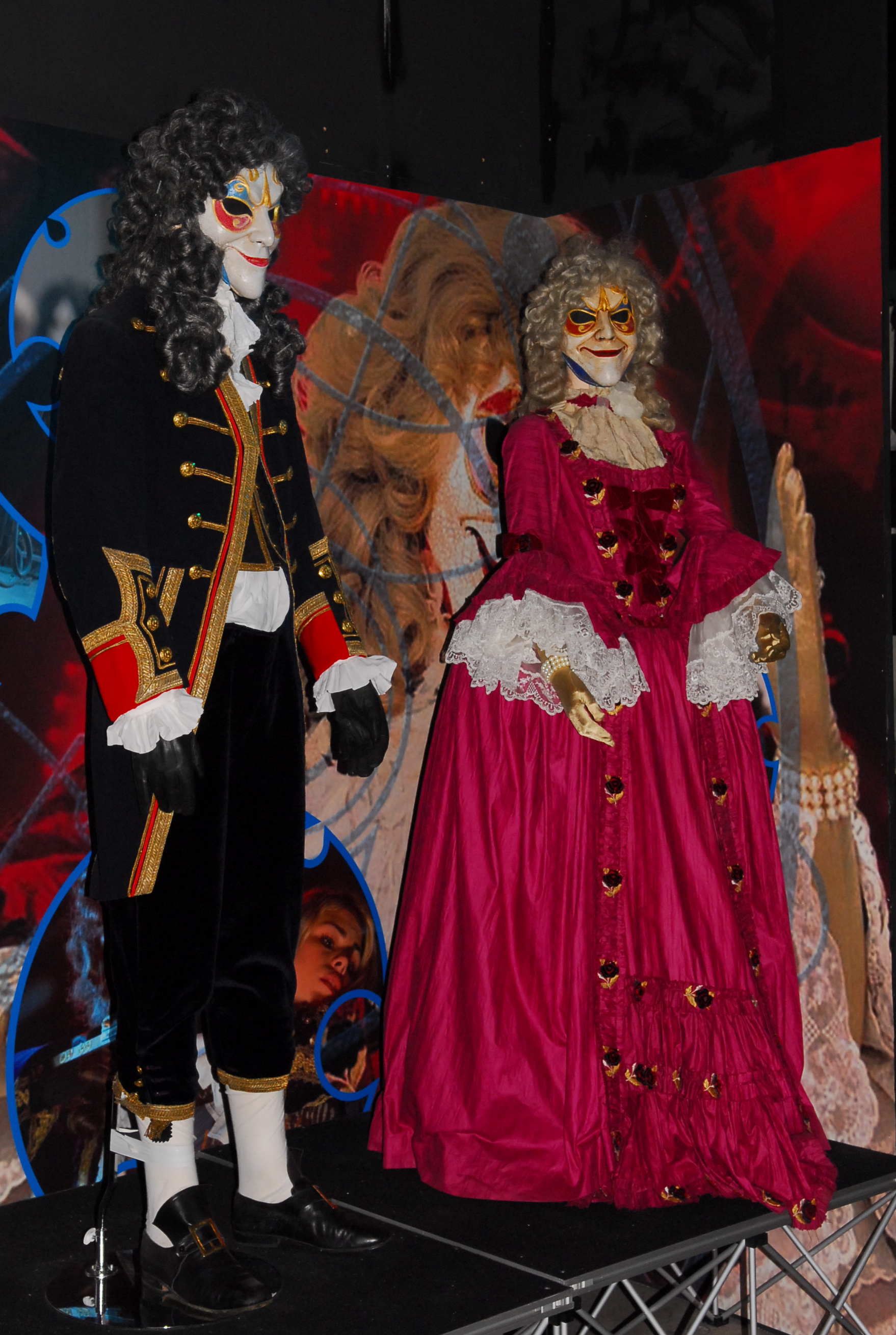 The girl in the fireplace Doctor Who Experience